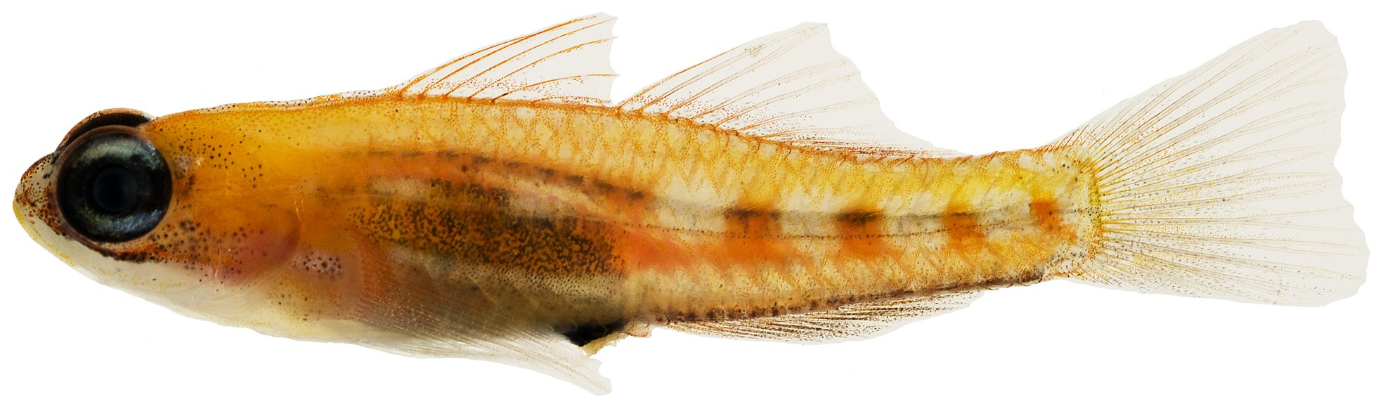 Coryphopterus personatus (Jordan & Thompson, 1905)—masked goby, 19.0 mm SL. Photo by JT Williams.